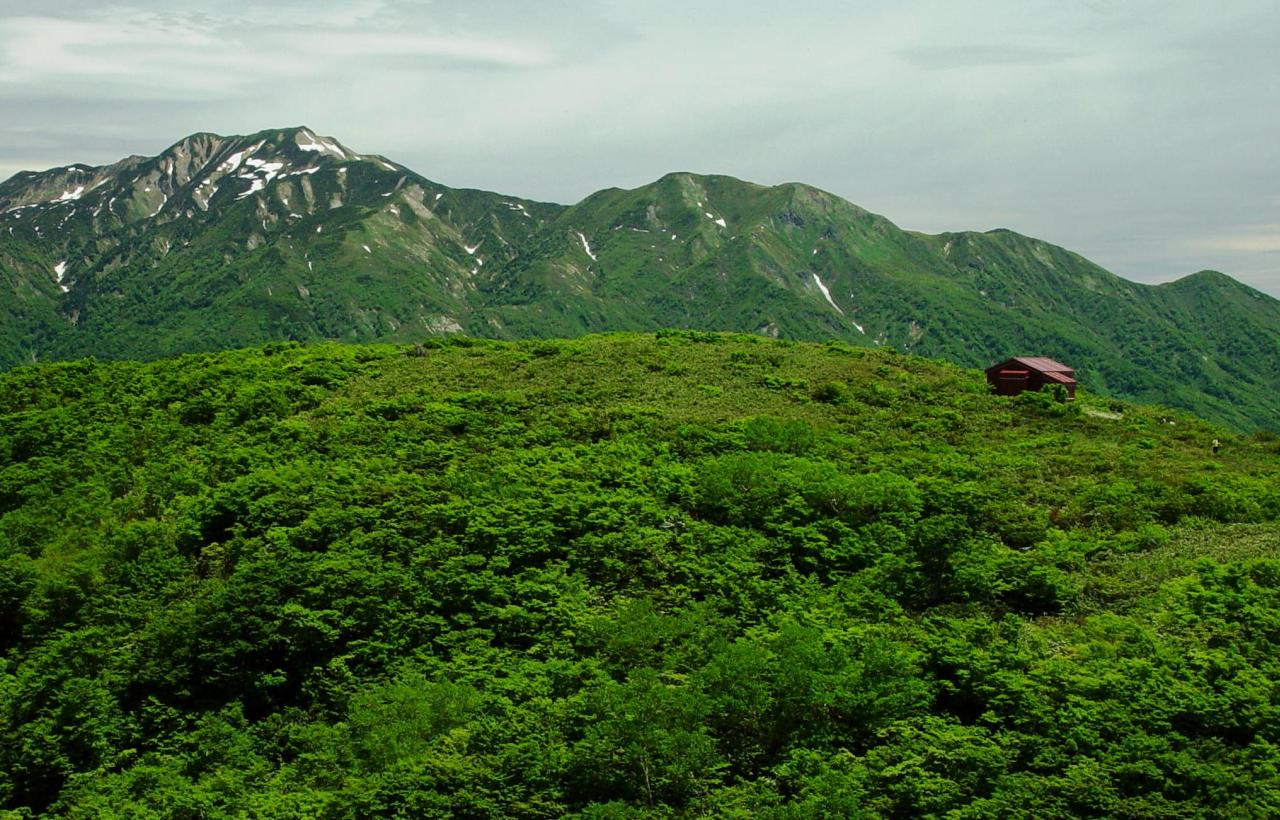 Mount Bessan and Hut Akausagi in Ryōhaku Mountains, Japan.